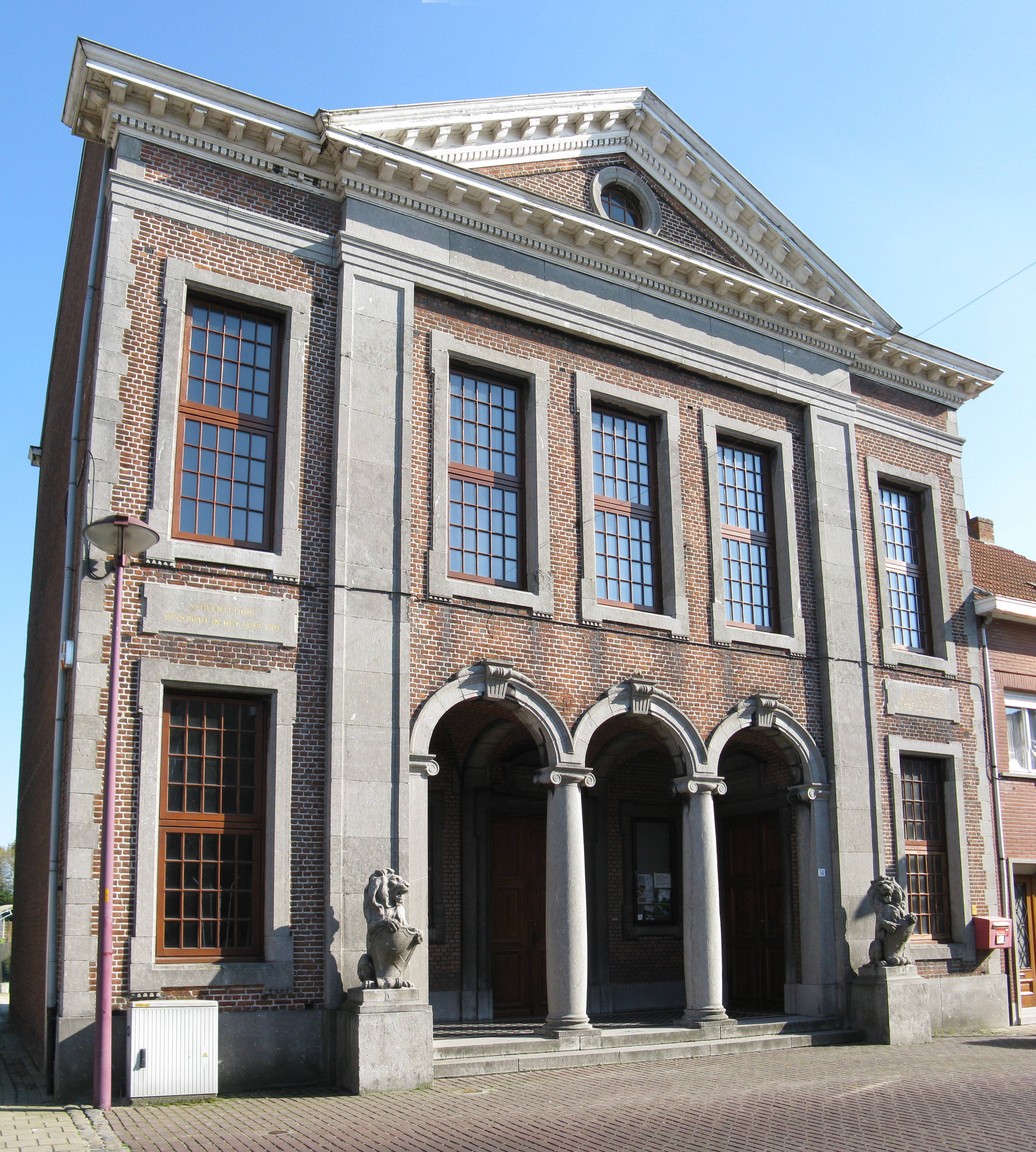 Auxilary town hall and library, Oppuurs, Sint-Amands, Antwerp, Belgium